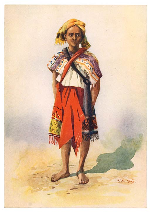 Kachári Man